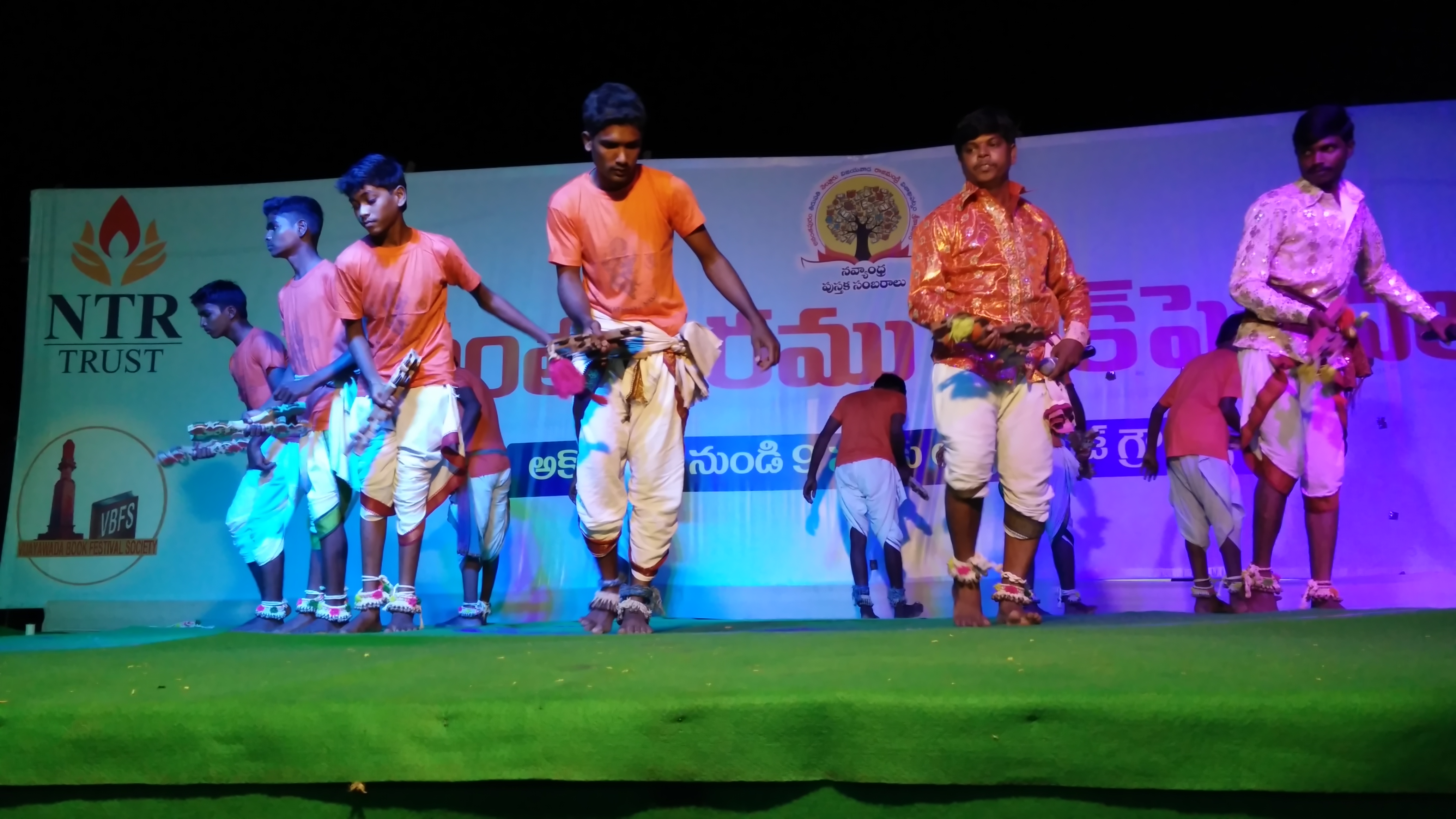 Chekka bhajana, a folk art form of Andhra Pradesh